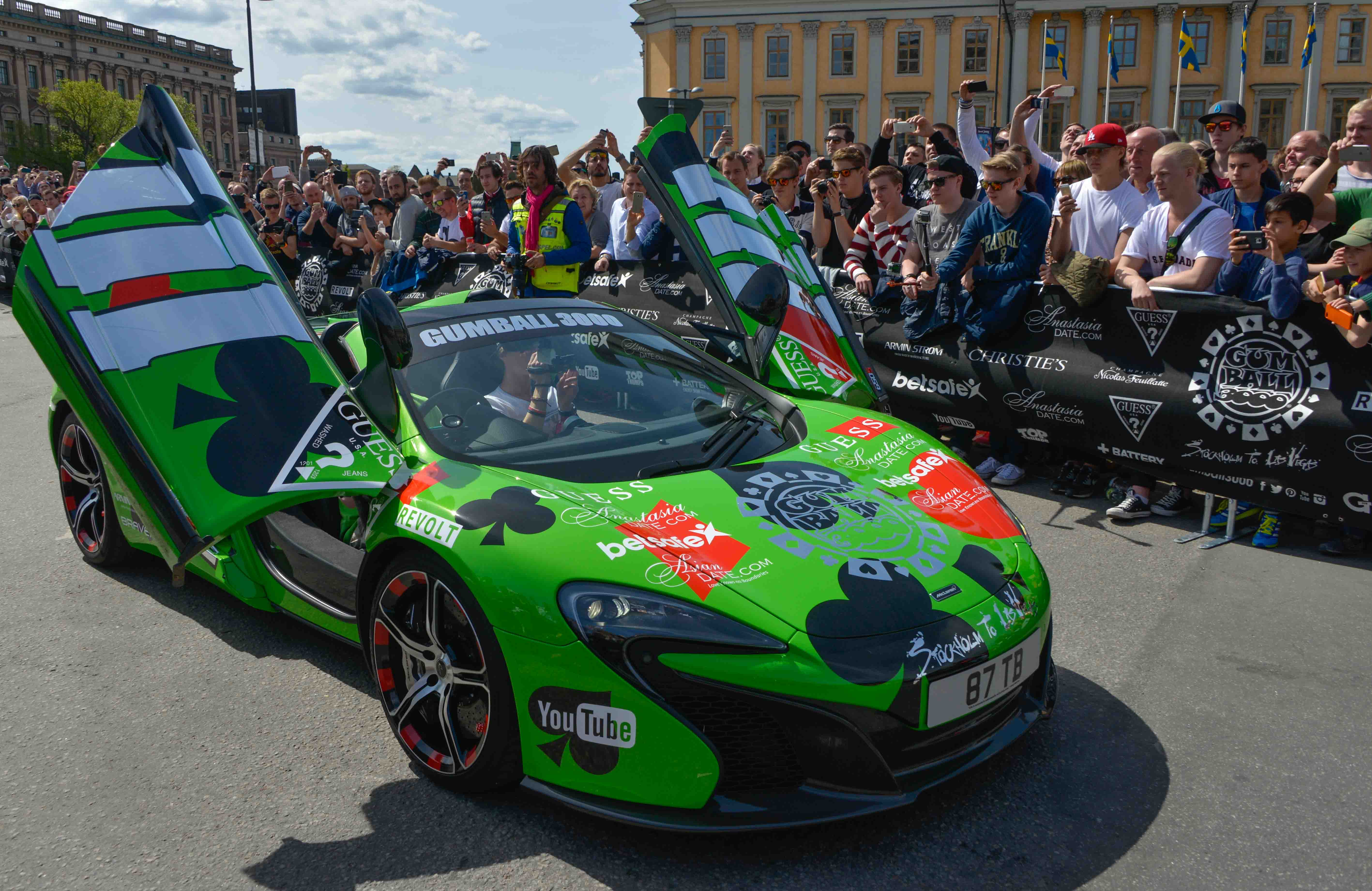 2015 Gumball 3000 starts from Stockholm, May 24.